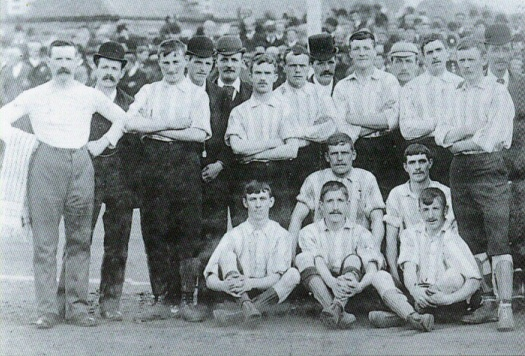 Dundee team photo from 1893 taken at their first league game against Rangers at West Cragie Park